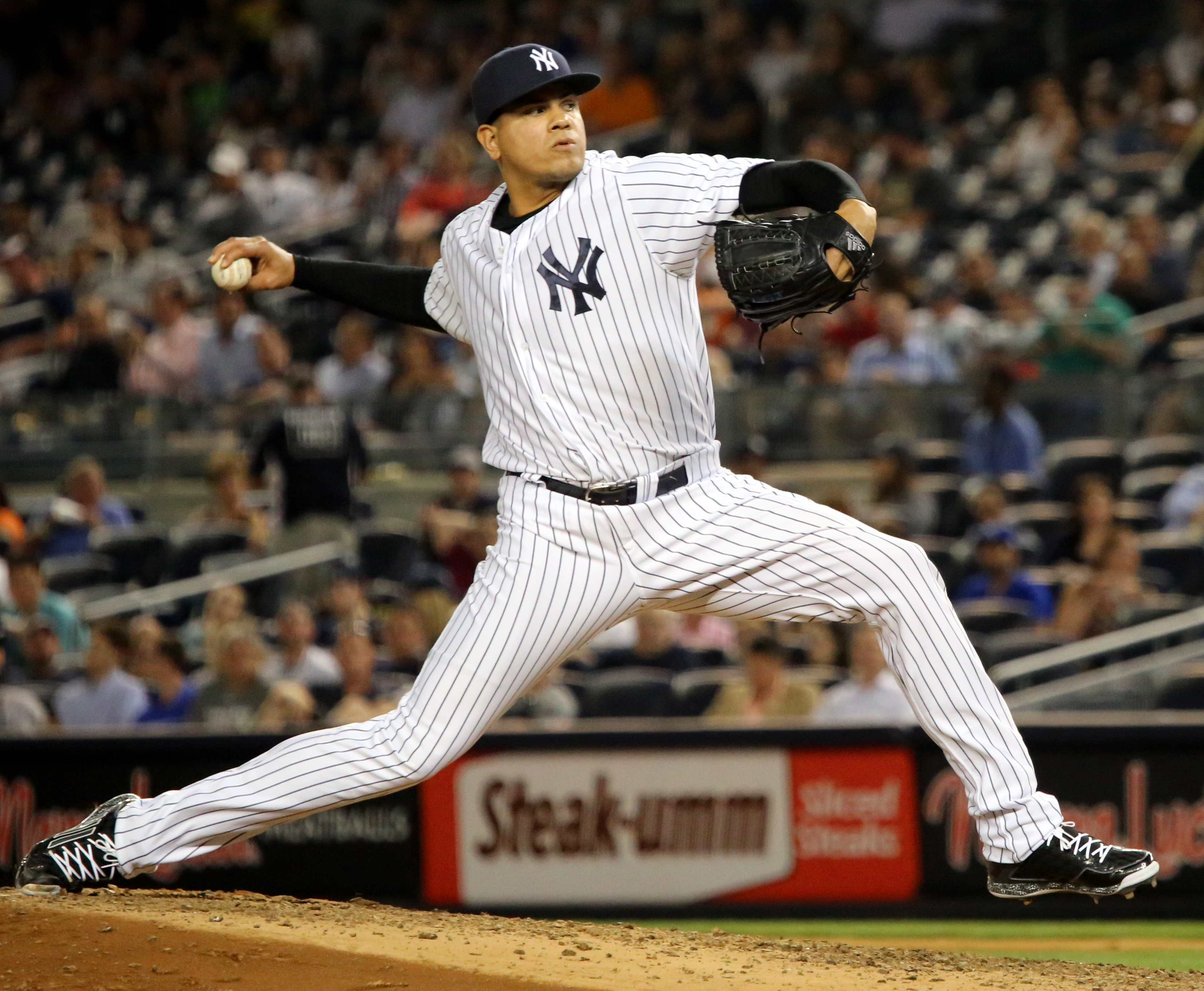 Dellin Betances delivers a pitch in the eighth inning.